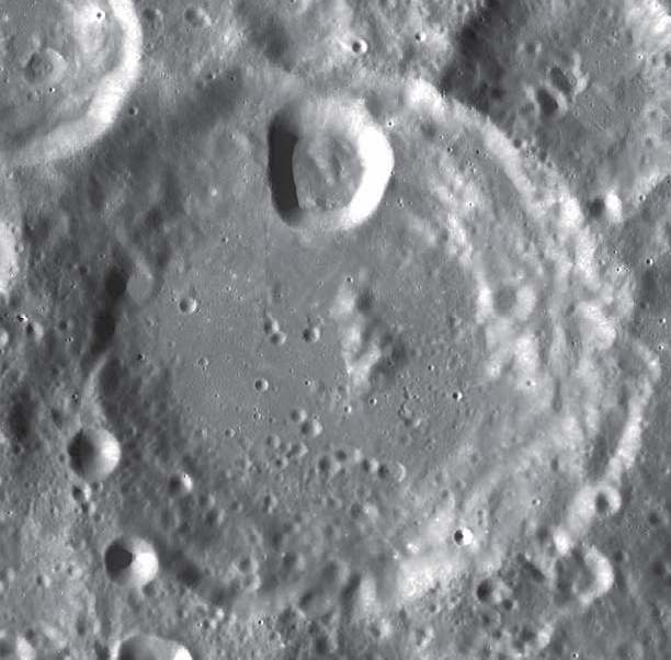 Compilation of images form charts LAC-67 and LAC-85